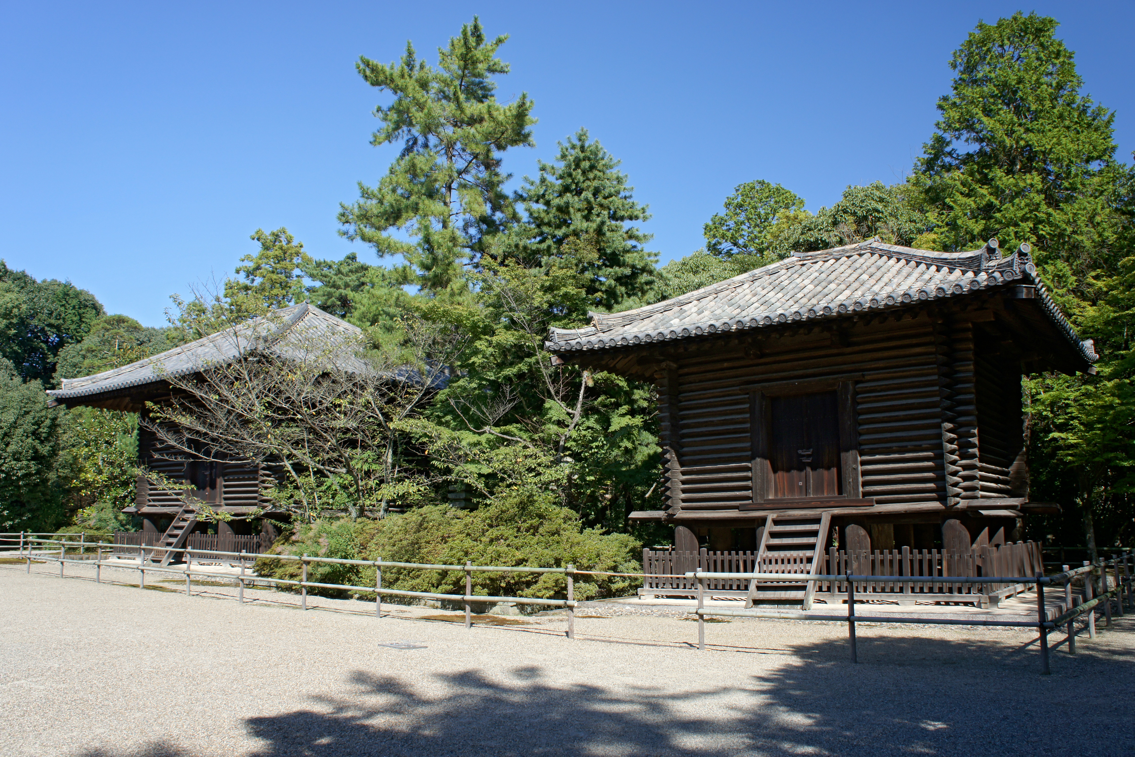 Tōshōdai-ji's Hōzō and Kyōzō is a Japan's National Treasure in Nara, Nara prefecture, Japan. It was built at the Nara period (AD 710 to 794).